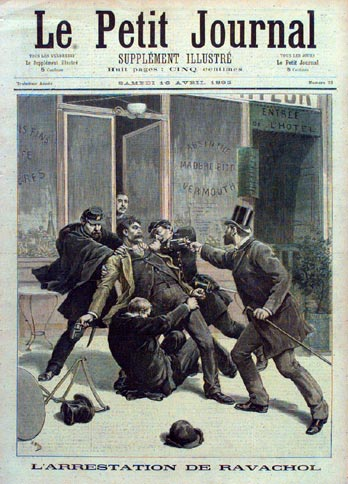 Cover page of "Le Petit Journal" illustrating the arrest of French anarchist and assassin Ravachol (1859-1892).